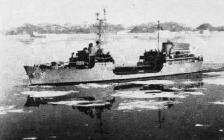 The U.S. Navy Patapsco-class gasoline tanker USS Nespelen (AOG-55), in 1955. In autumn and winter of 1955–1956, Nespelen participated in "Operation Deep Freeze", a scientific expedition into Antarctica.